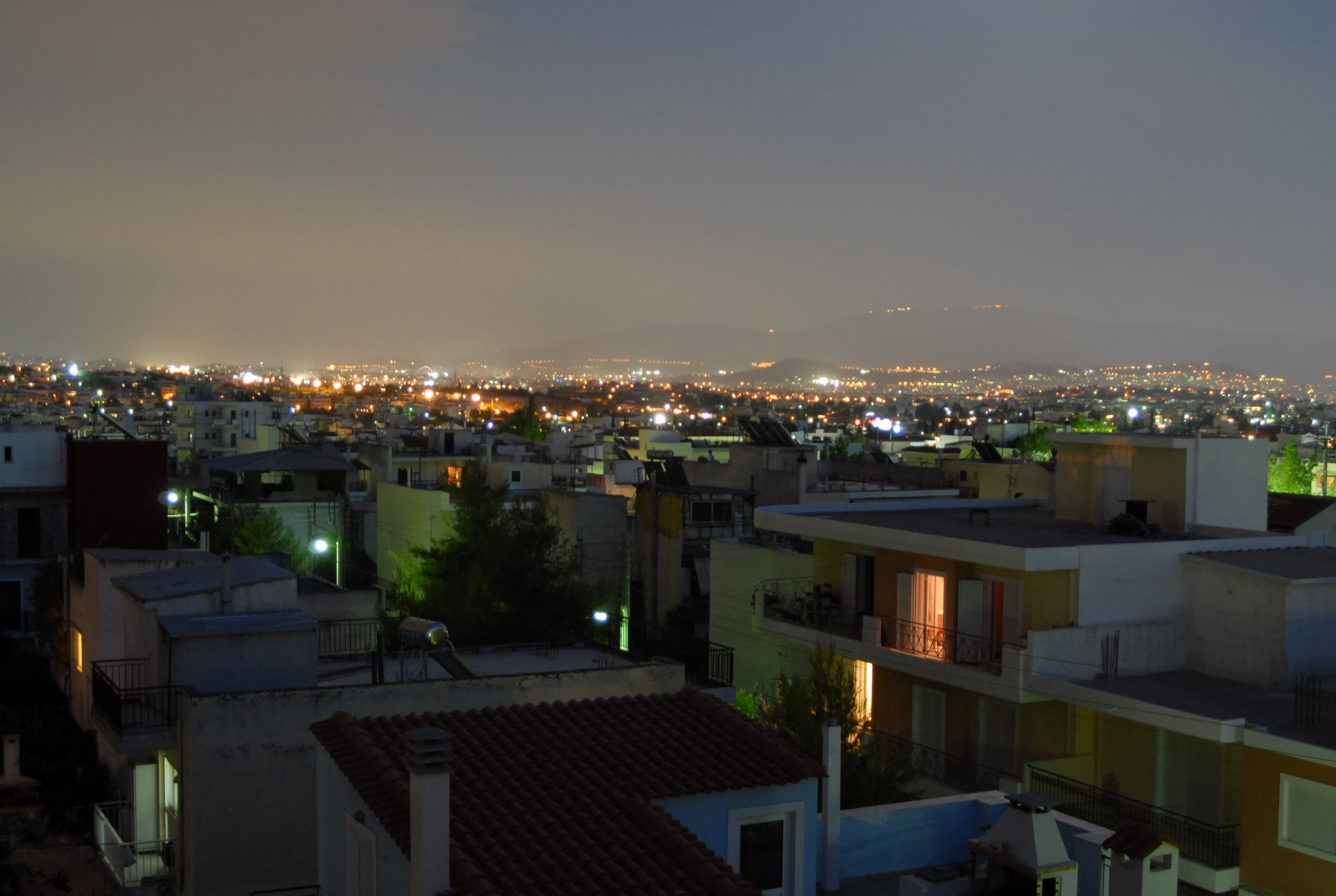 Panoramic view of Athens as seen from Ano Liosia. To the left are the dust clouds from the 2007 Parnitha wildfire.